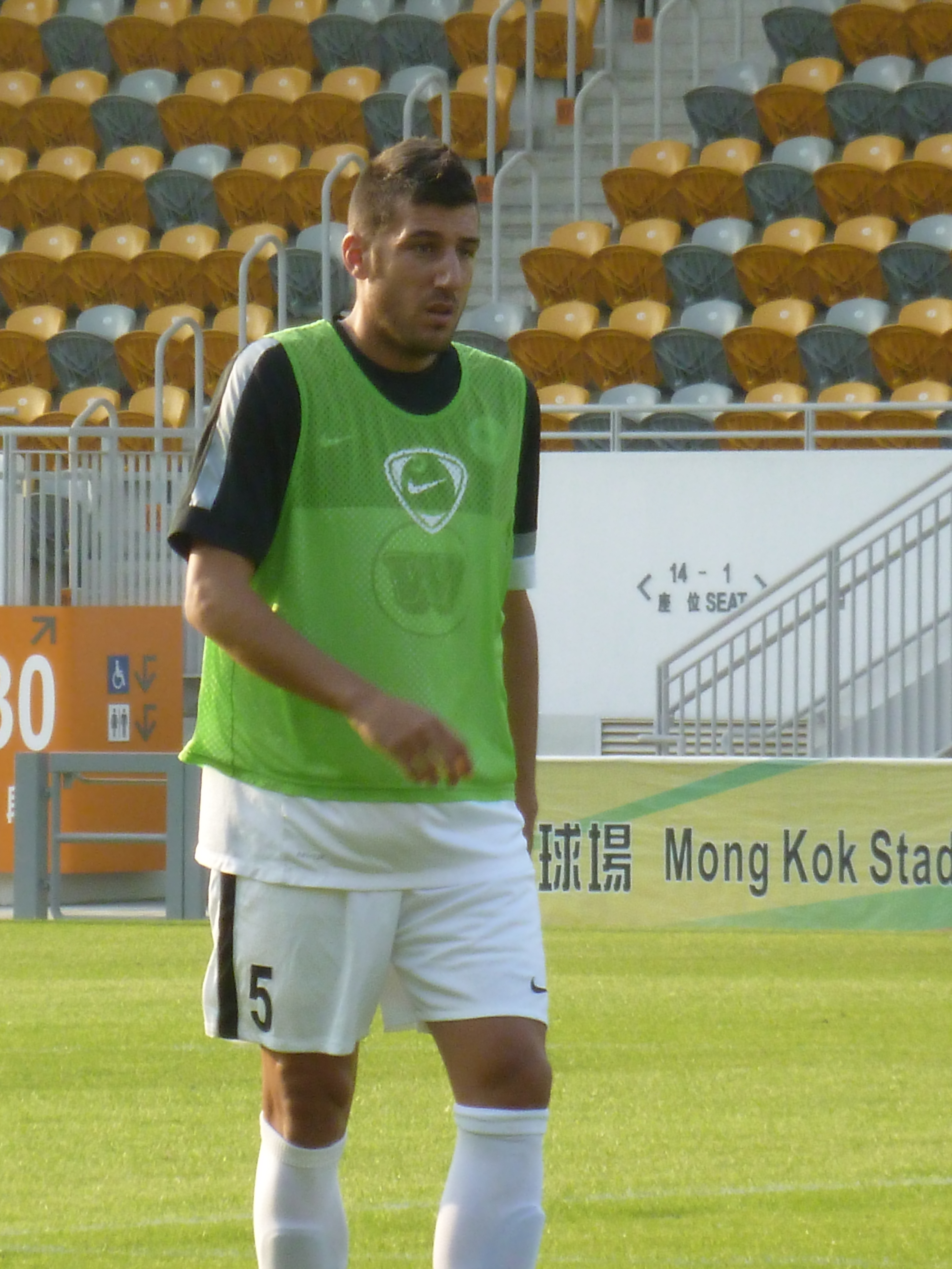 Rubén López García-Madrid (23 Feb 2013, Hong Kong First Division League, Sun Hei vs Southern, Mong Kok Stadium)中文（香港）: 魯賓 (23 Feb 2013, 香港甲組足球聯賽, 晨曦 vs 南區, 旺角大球場)